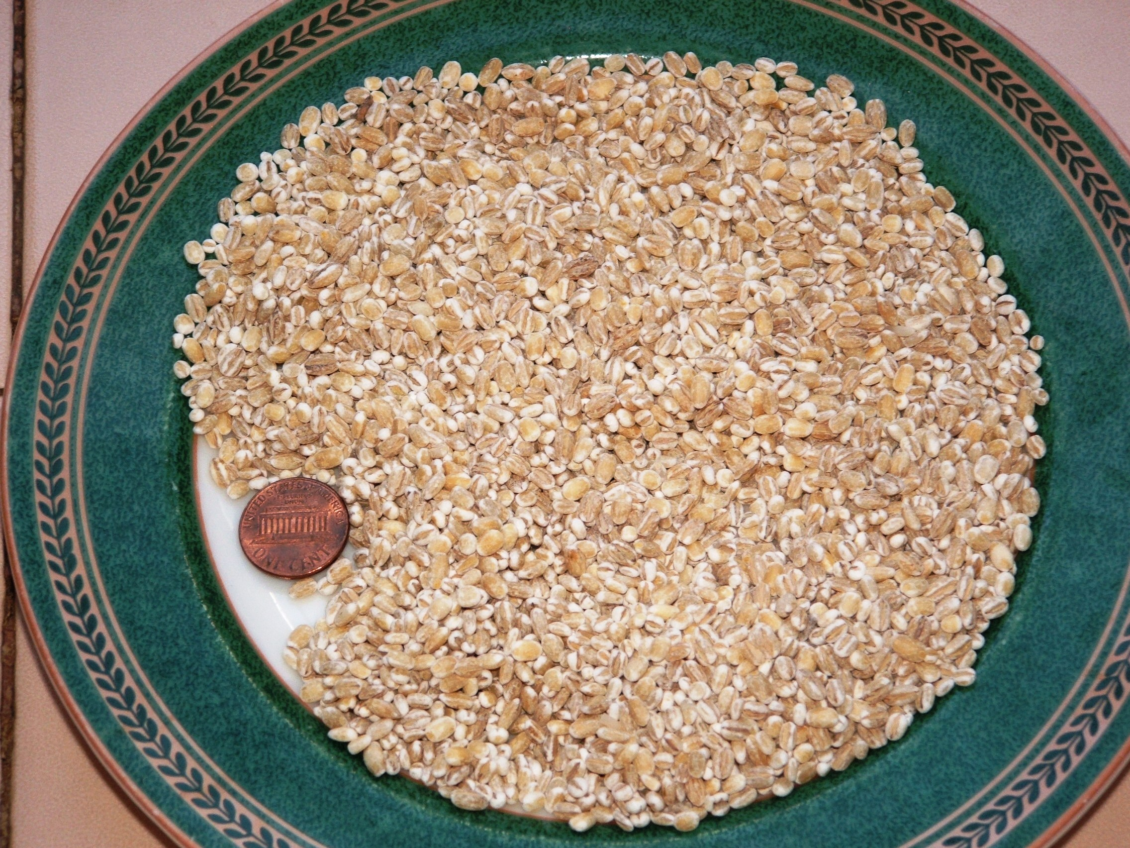 Barley [with US Penny ($.01) for size comparison] (pearled - processed to remove its hull and bran. Barley must have its fibrous outer hull removed before it can be eaten; pearl barley is taken a step further, polished to remove the nutritious bran layer.)